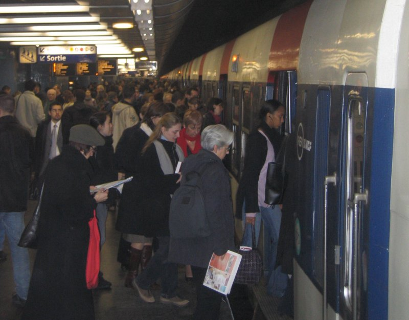 People getting in the RER B at Châtelet. (Author: Metropolitan)